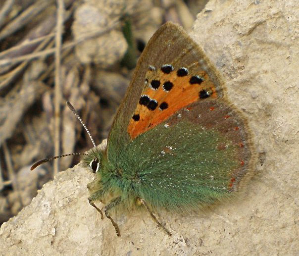 Female near Tàrrega, Lleida, Catalonia.